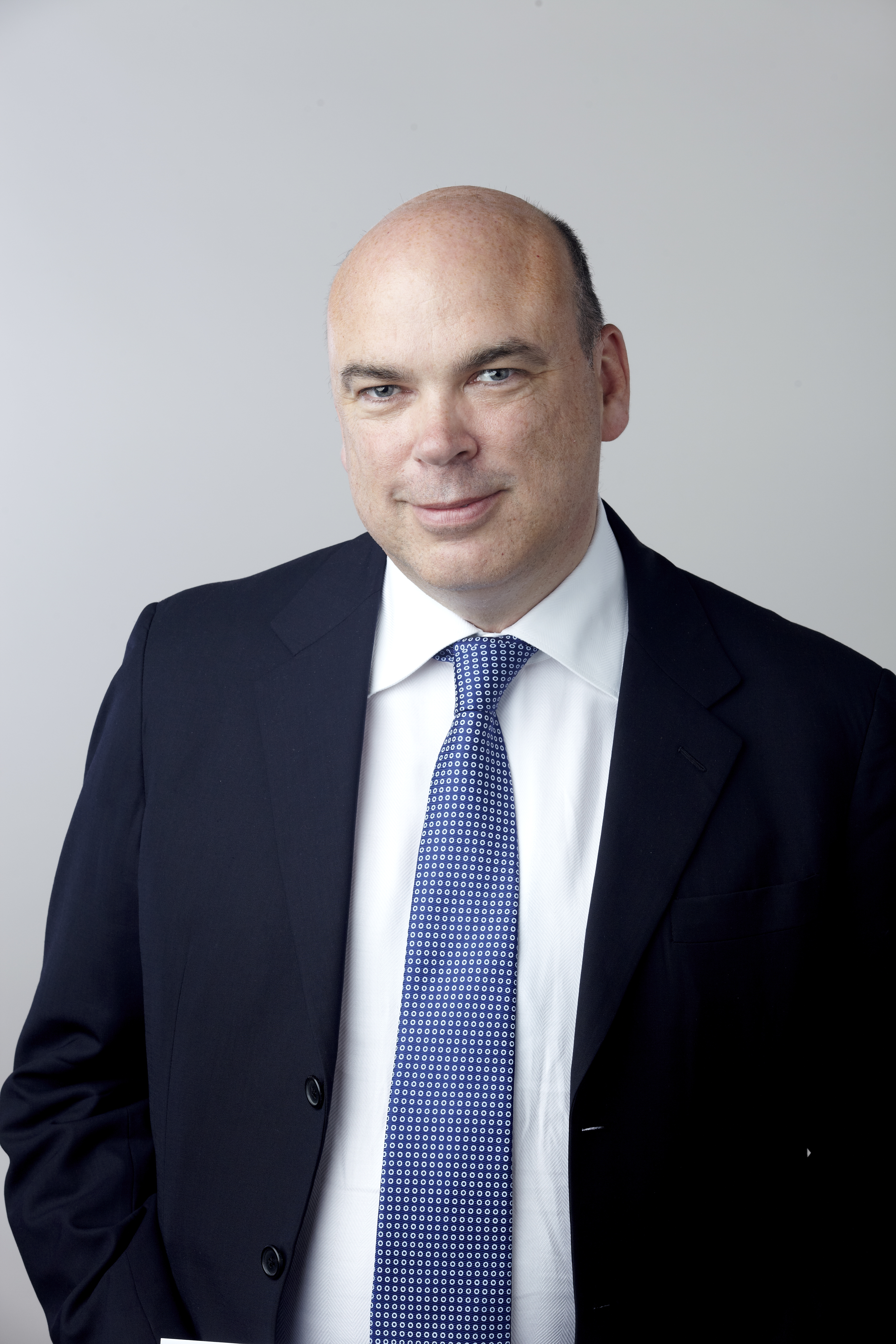 Dr Michael Lynch OBE FREng FRS, Royal Society Fellow elected 2014 Attribution: The Royal Society